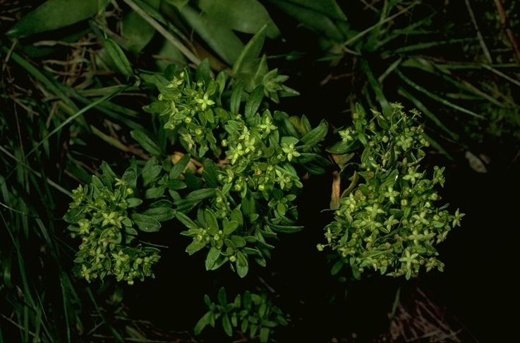 Sea-cliff bedstraw (Galium buxifolium), Channel Islands, CA, USA